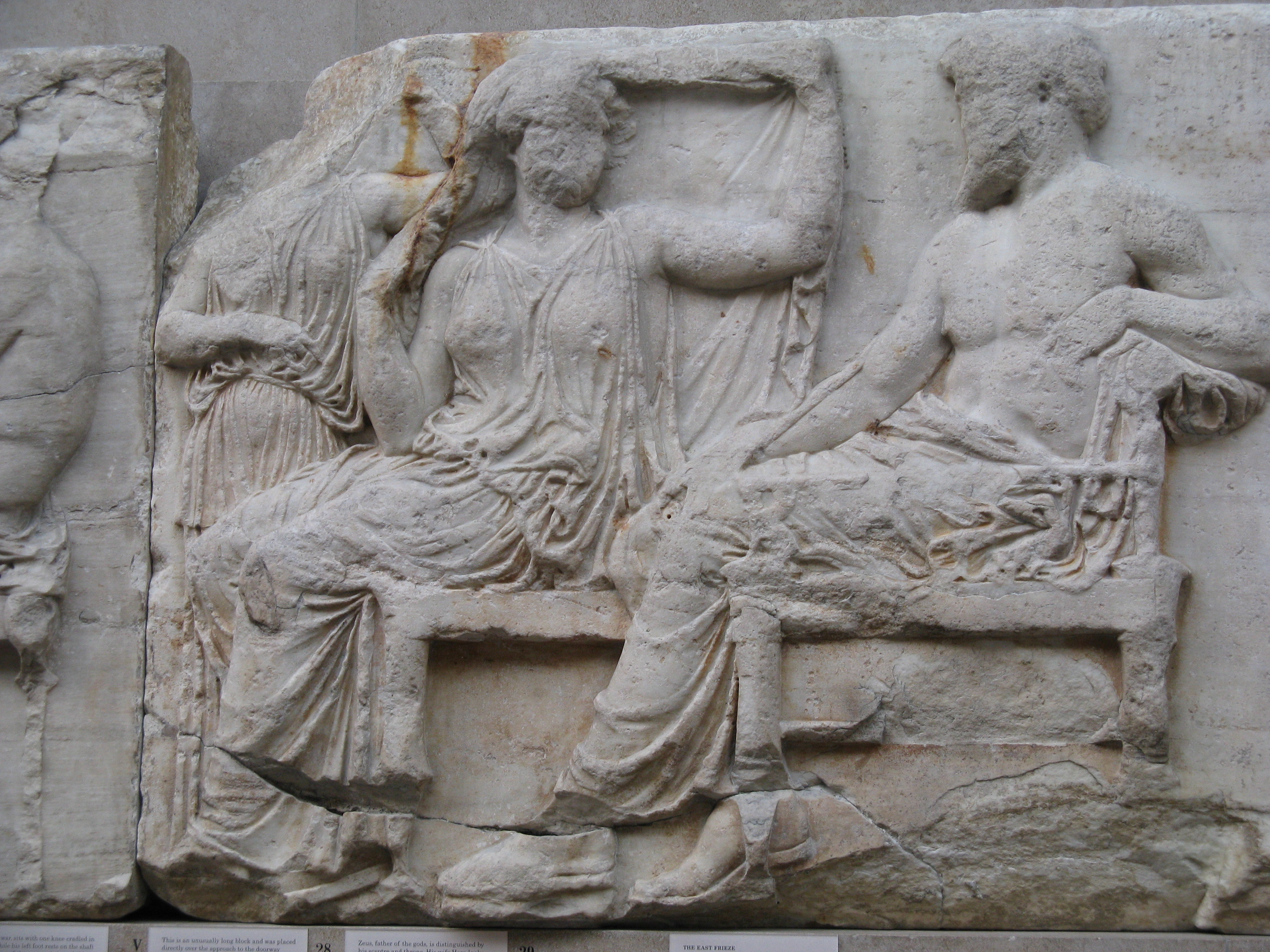 Part of the central section of the east frieze. From left to right, Iris (standing), Hera and Zeus.